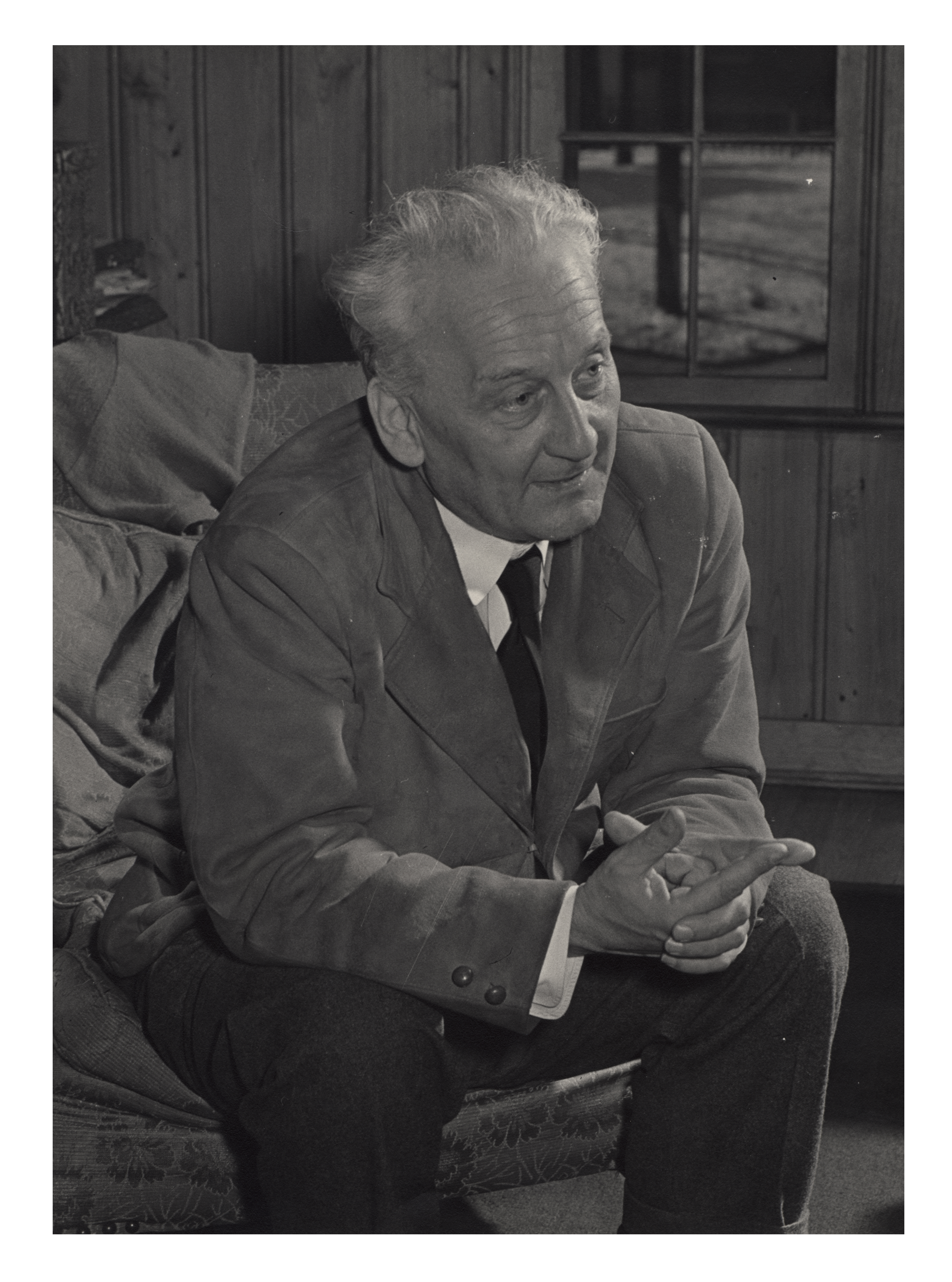 Portrait of Nobel Prize laureate Albert Szent-Györgyi.